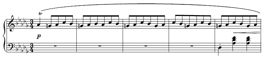 The start of the song Minute Waltz by Chopin. PNG version of Minute Waltz.bmp, originally uploaded by Pichu826 on en:13 March en:2004.